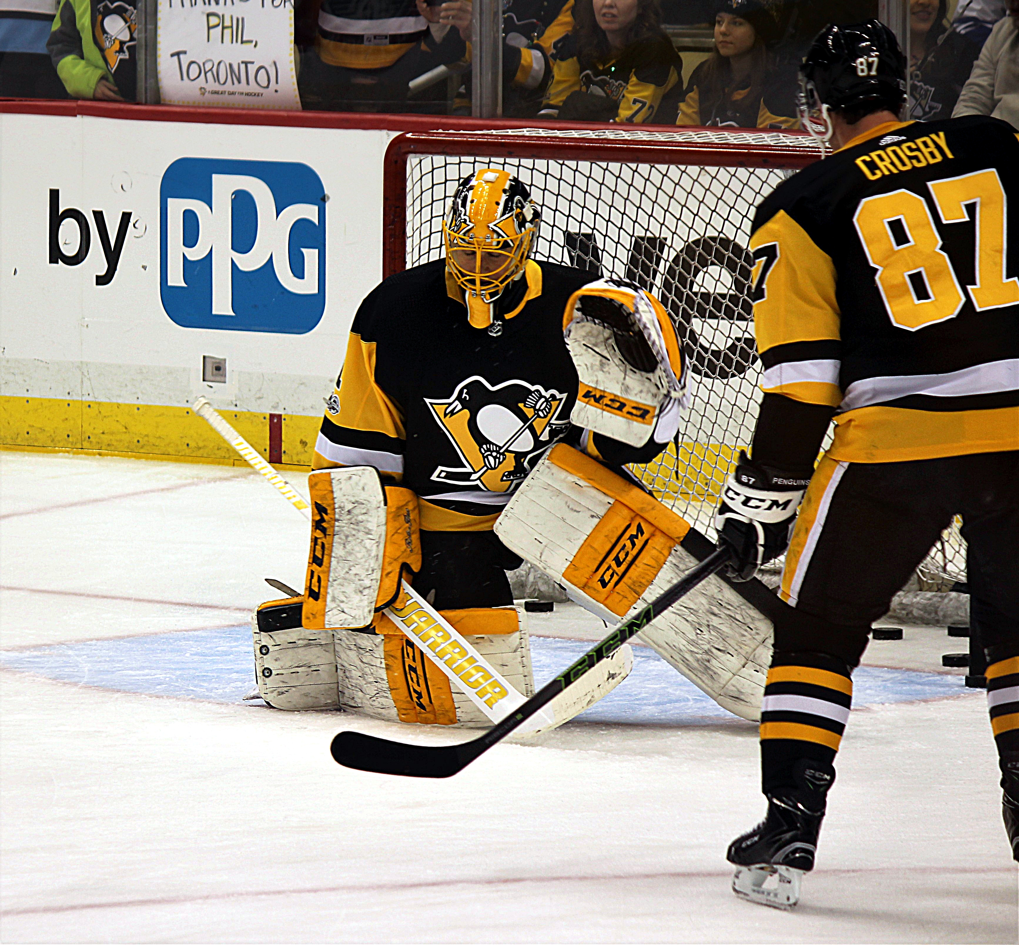 Pittsburgh Penguins goalie Casey DeSmith warms up with Sidney Crosby.